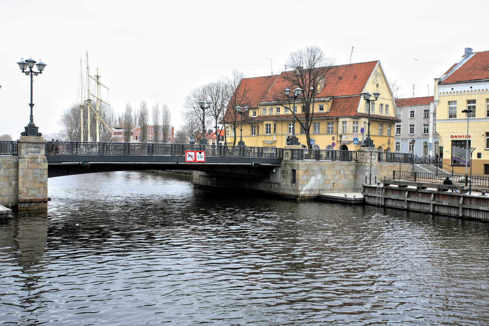 Biržos (Stock) Bridge in Klaipėda